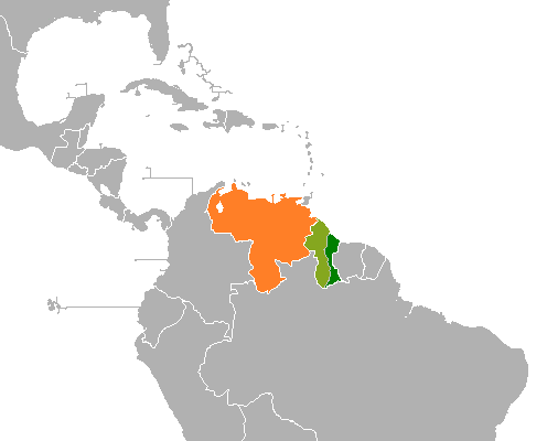 Map showing locations of both Guyana and Venezuela. Light green is the disputed Guayana Esequiba